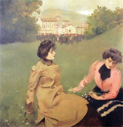 Caramelles (Easter folk songs), by Ramon Casas, Cercle del Liceu, Barcelona, 1901-1902